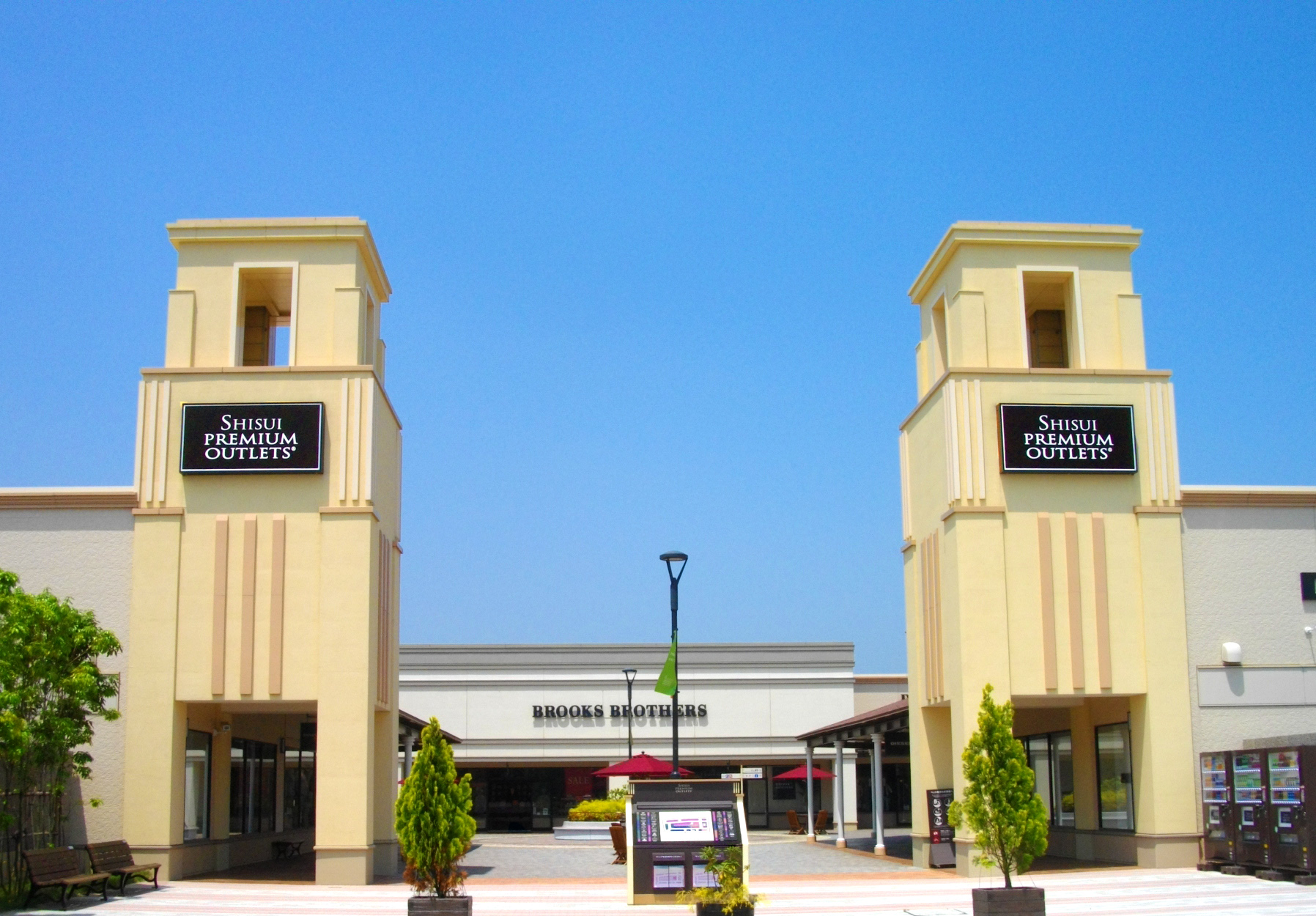 Shisui Premium Outlets